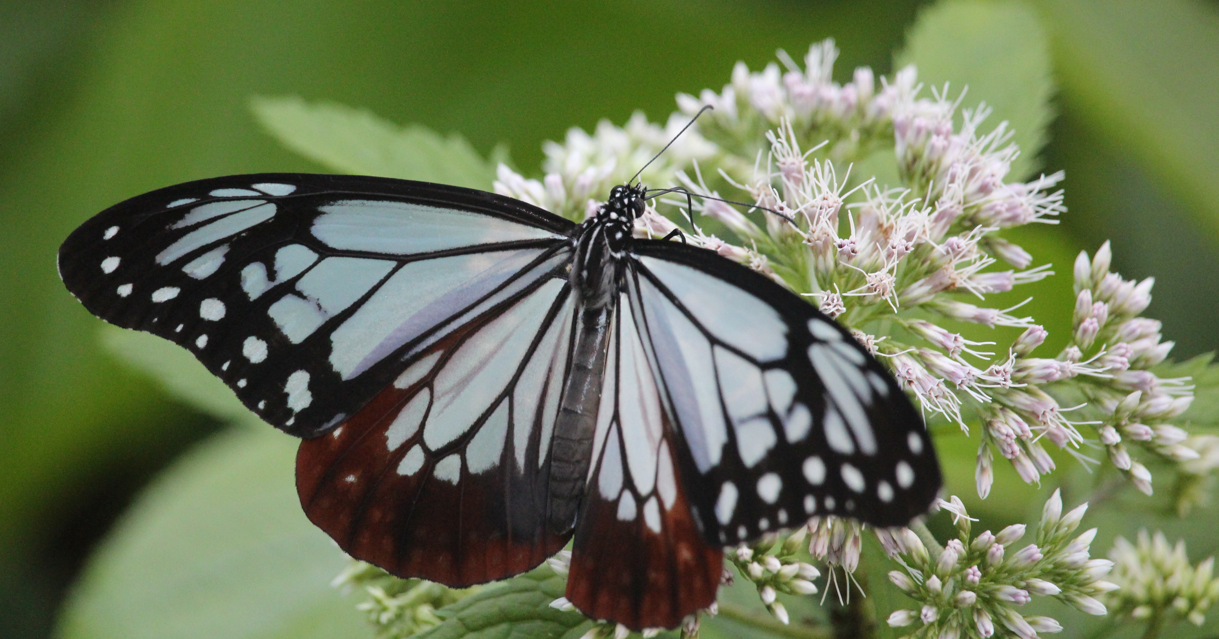 Chestnut Tiger (Parantica sita) feeding nectar of Eupatorium glehnii , in Mount Shirouma, Hakuba, Nagano prefecture, Japan.